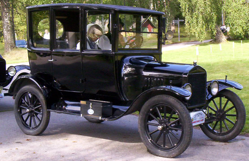 1920 Ford Model T Centerdoor Sedan